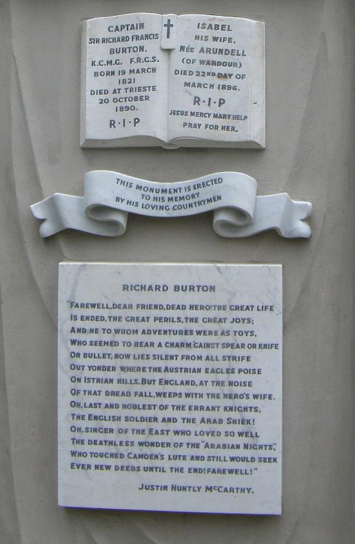 Richard Francis Burton Enscriptions